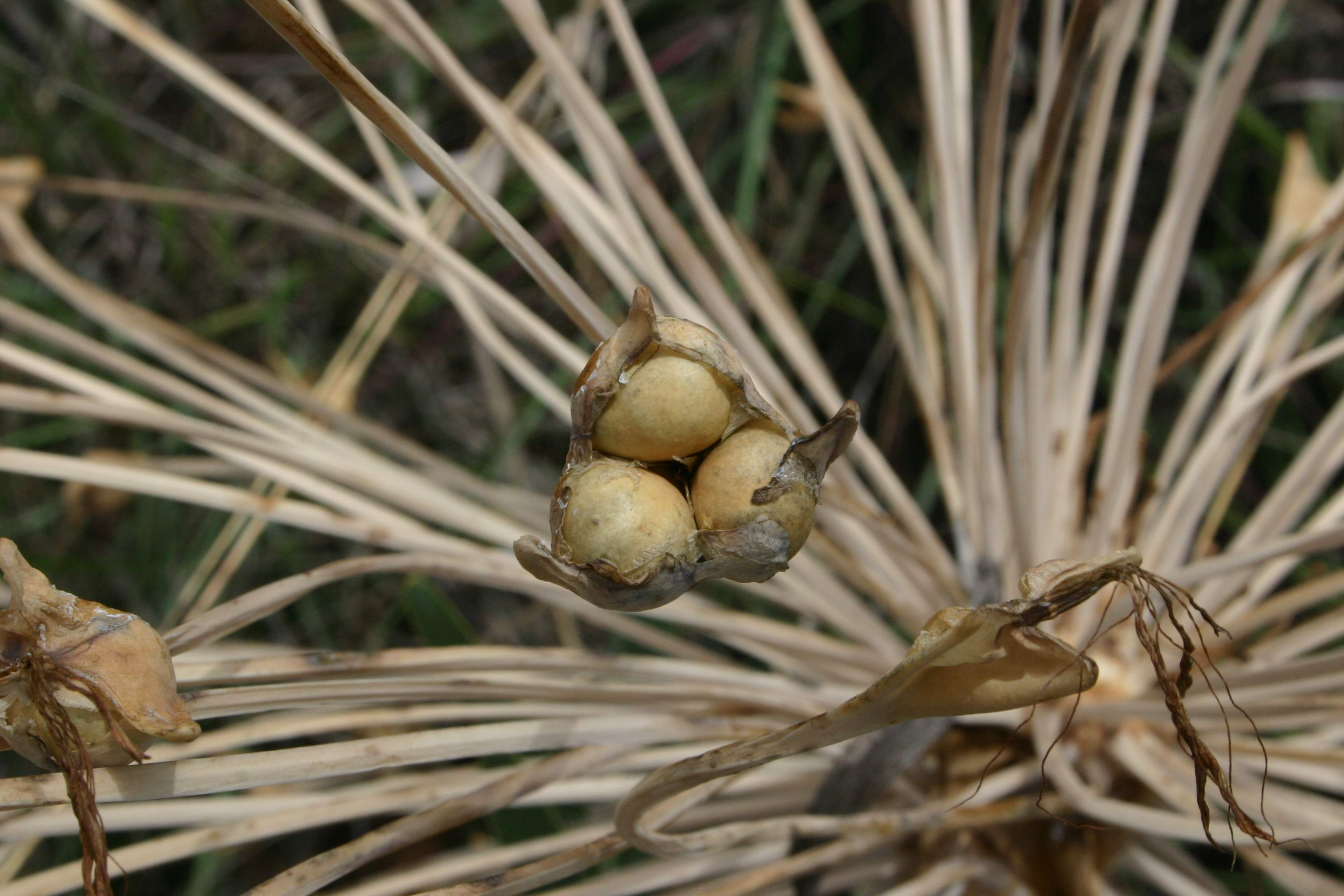 Boophone disticha seeds - Hamerkop nr Sparkling Waters, Magaliesberg, South Africa